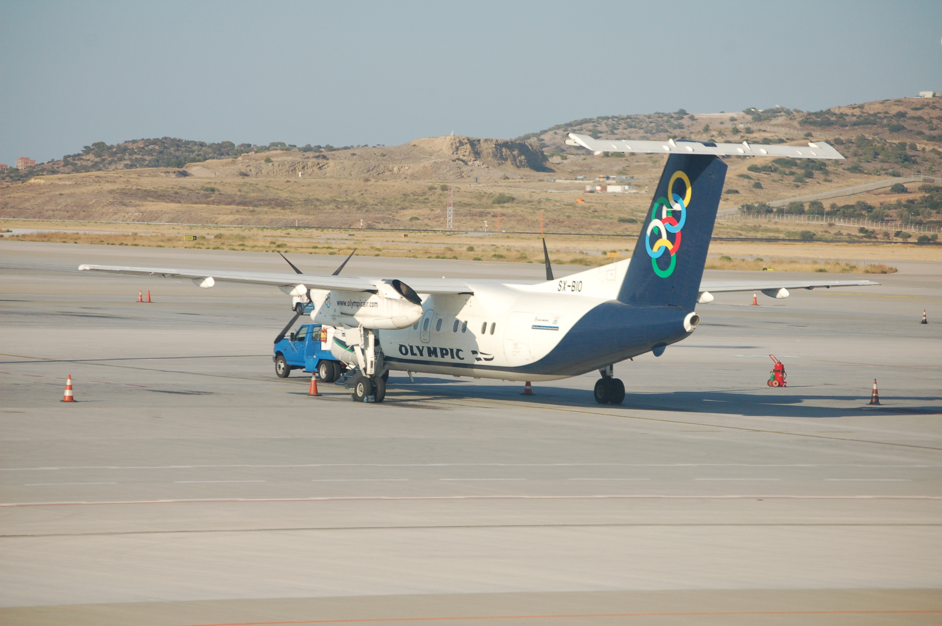 Olympic Air SX-BIO in Athens International Airport.